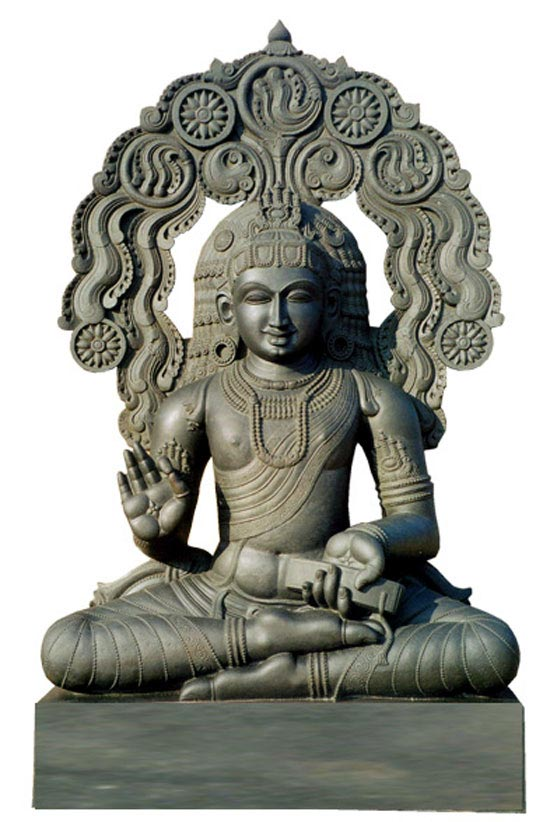 Imagem da estátua de Mamuni Mayan